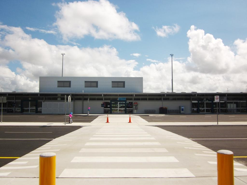 This is a photo showing the newly renovated Proserpine (Whitsunday Coast) Airport terminal.